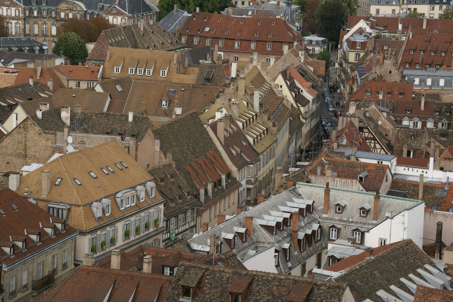 View from to the north east from the tower of Strasbourg Cathedral, Strasbourg, Alsace, France